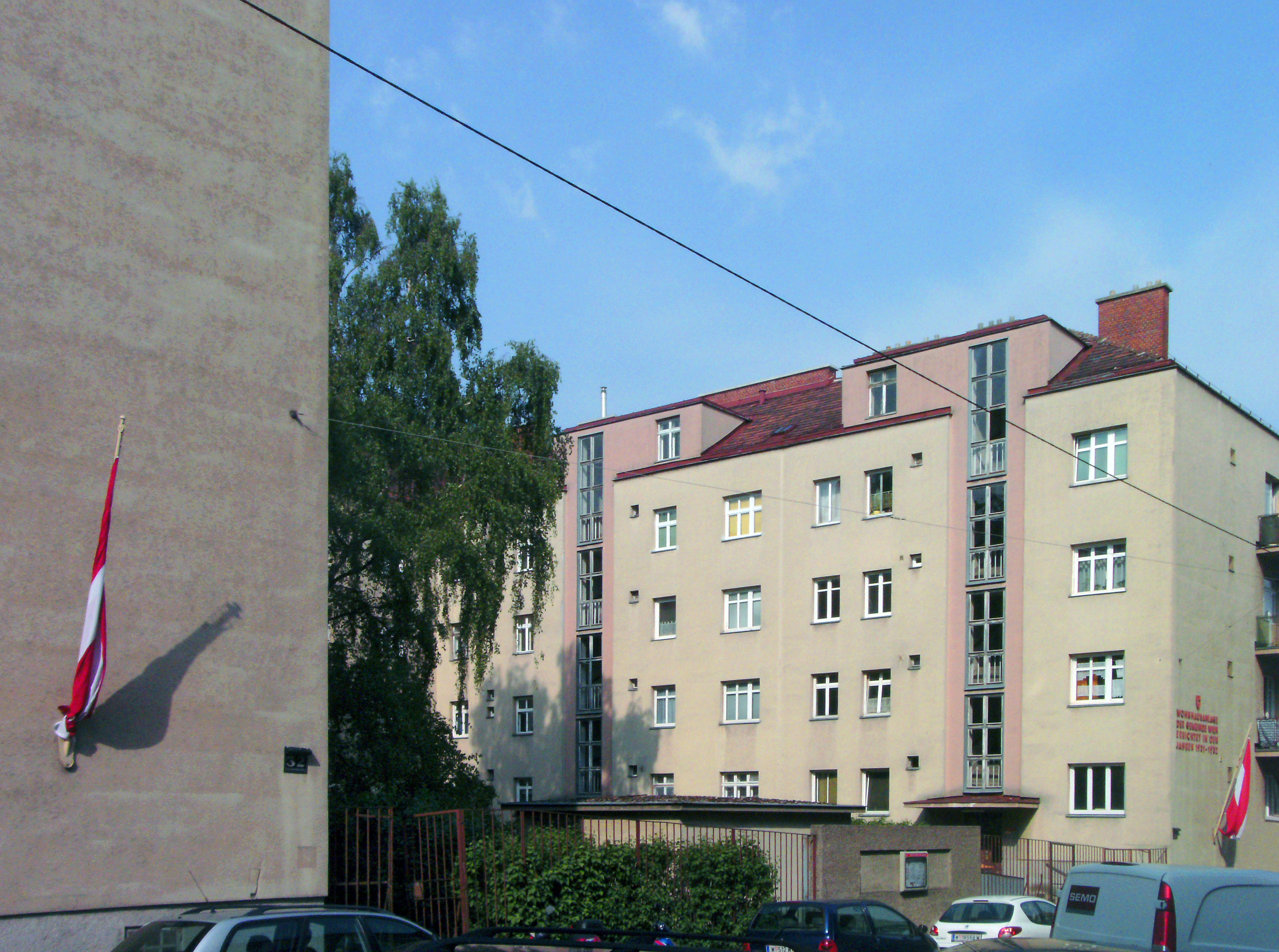 Municipal residential building in Loeschenkohlgasse 30-32, Vienna's 15th district This media shows the Vienna residential building (Gemeindebau) with the ID 1071.